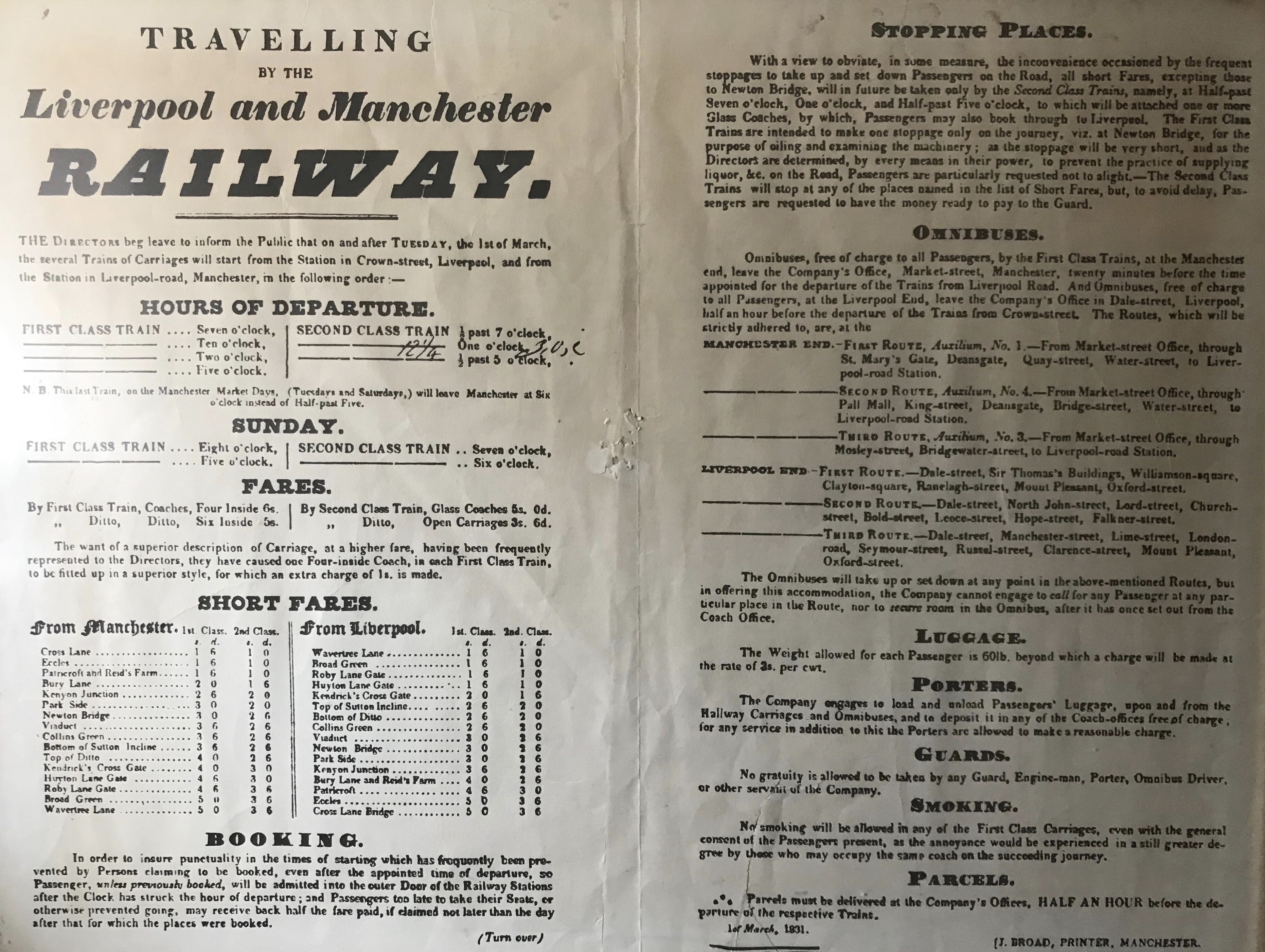 LMR 1831 billboard showing timetable and conditions of carriage